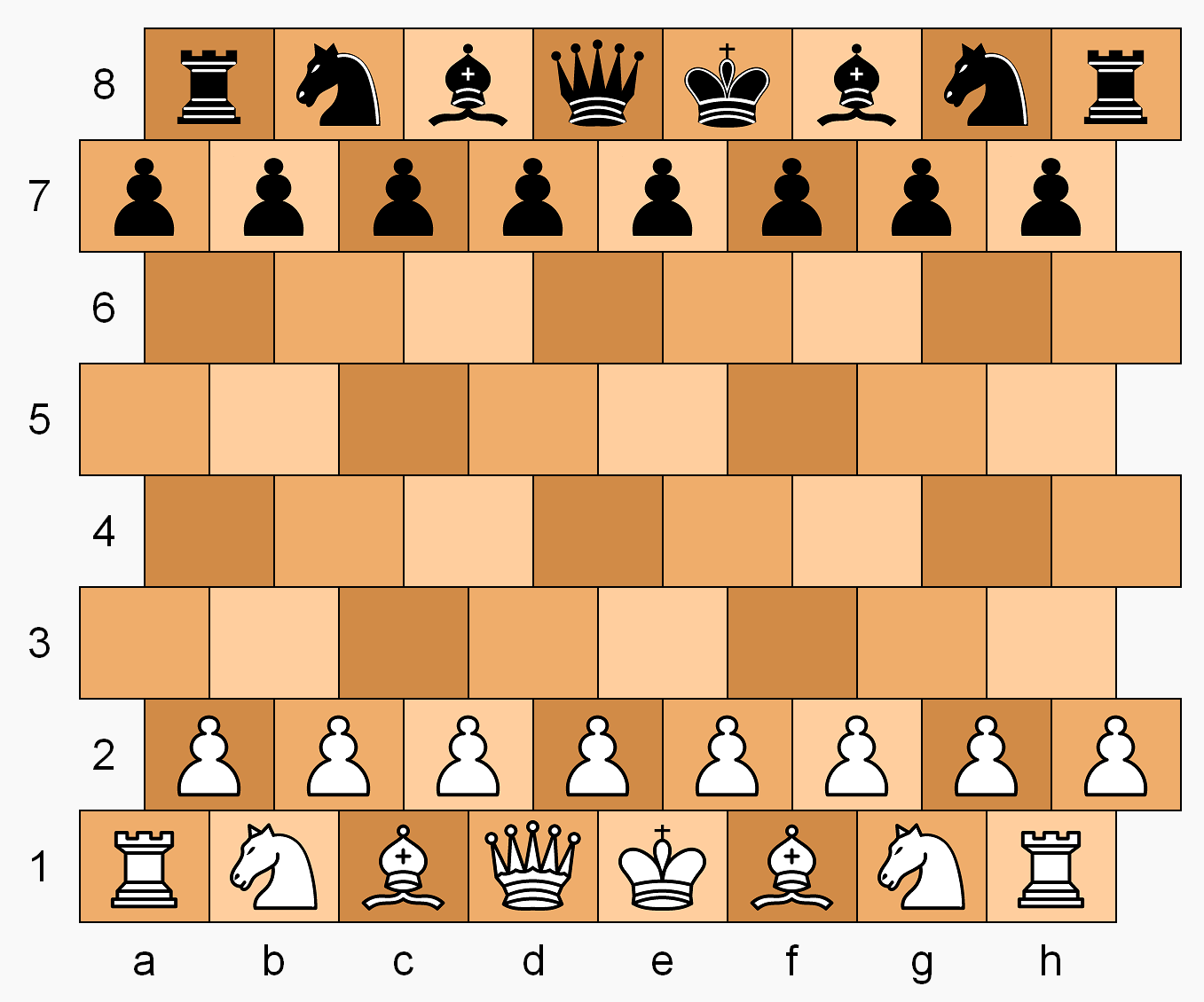 Using ProjChess colors and the great chess icons fashioned by David Benbennick (User:Dbenbenn). All done in MS PAINT.